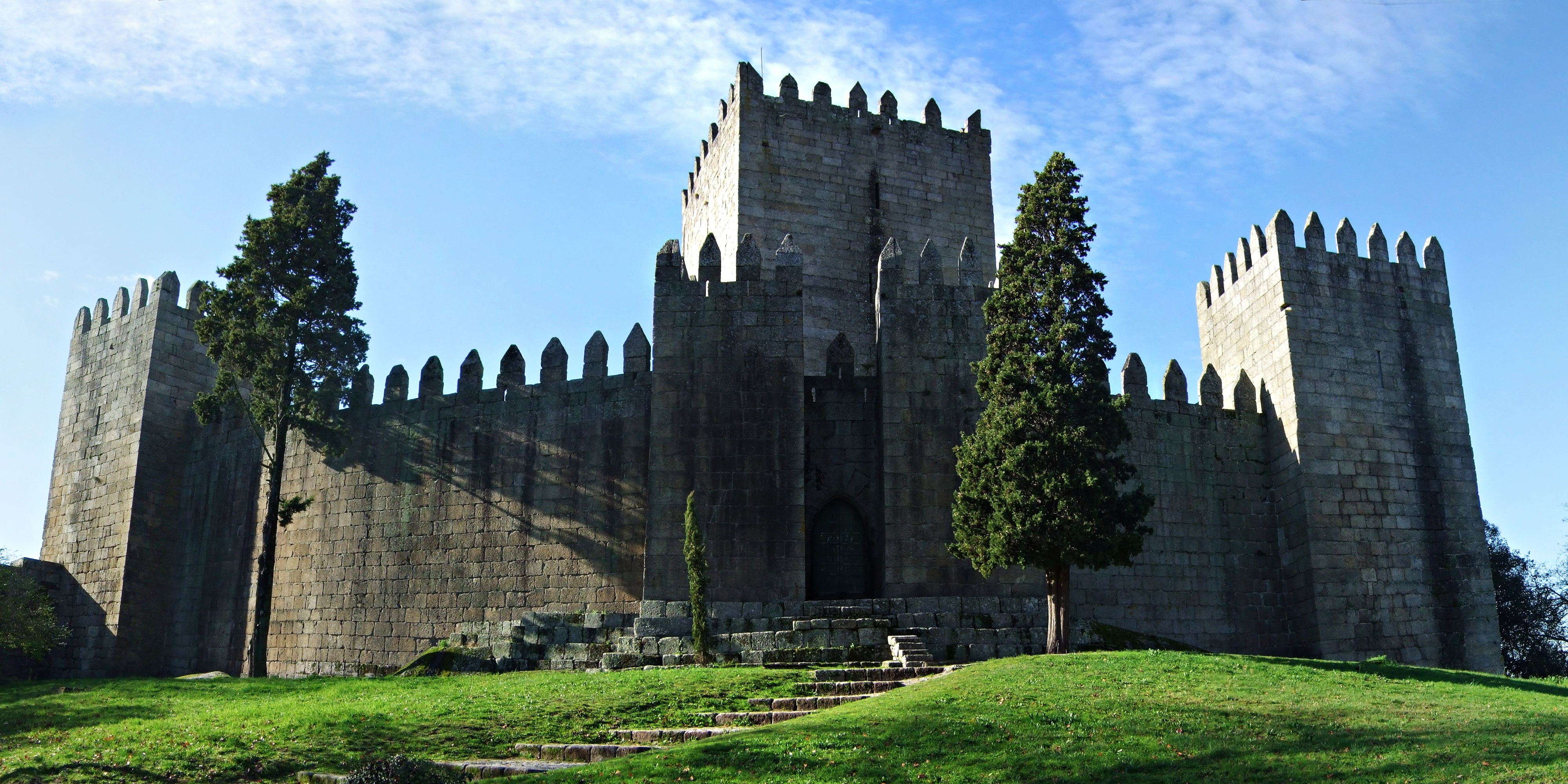 Guimarães Castle as seen from the São Mamede field